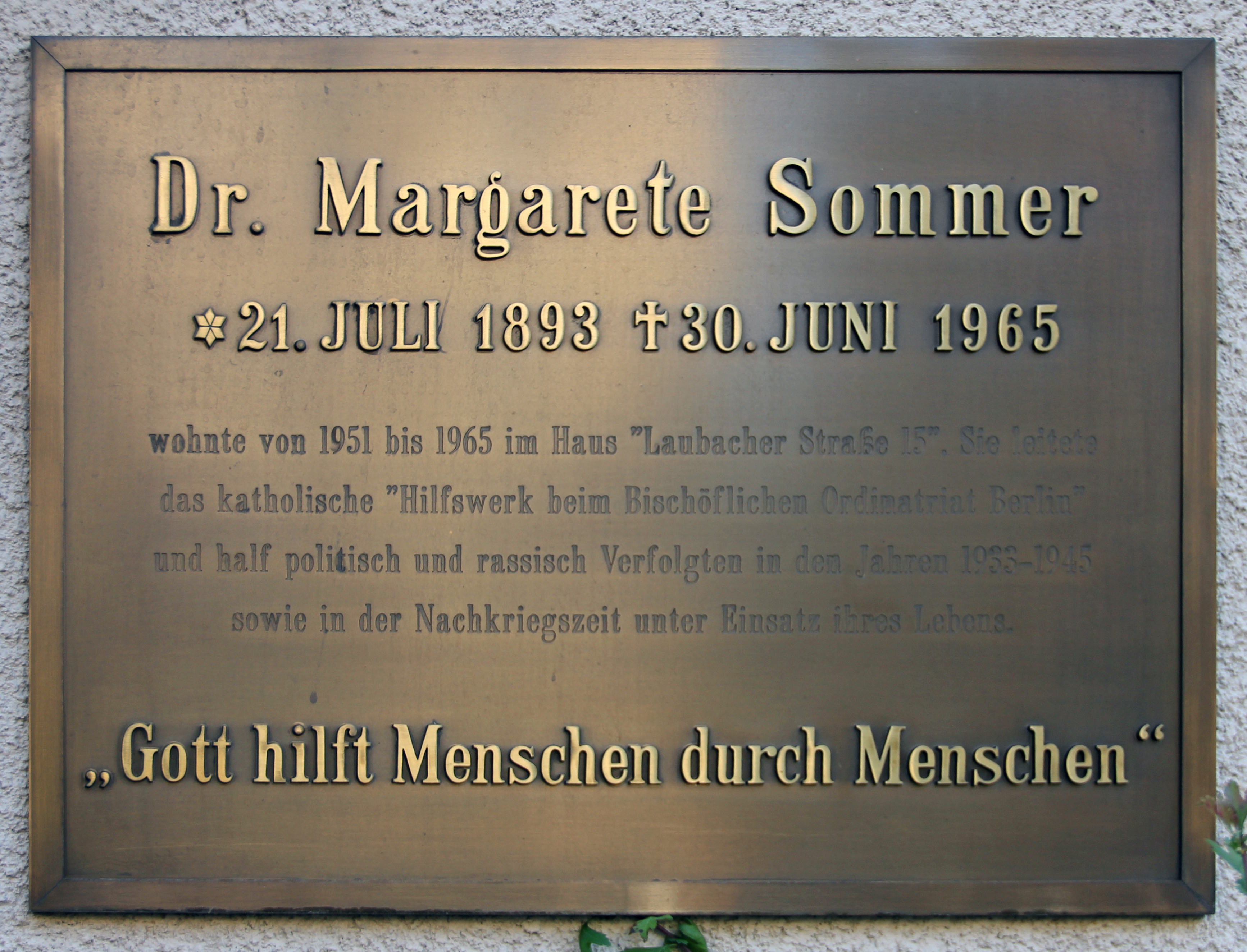 Memorial plaque, Margarete Sommer, Laubacher Straße 15, Berlin-Friedenau, Germany